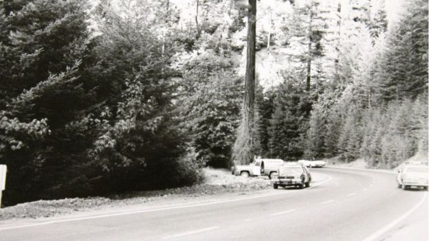 Crime scene where two formerly unidentified bodies were discovered.